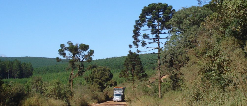 Parana pine near Jaguariaíva, Brazil